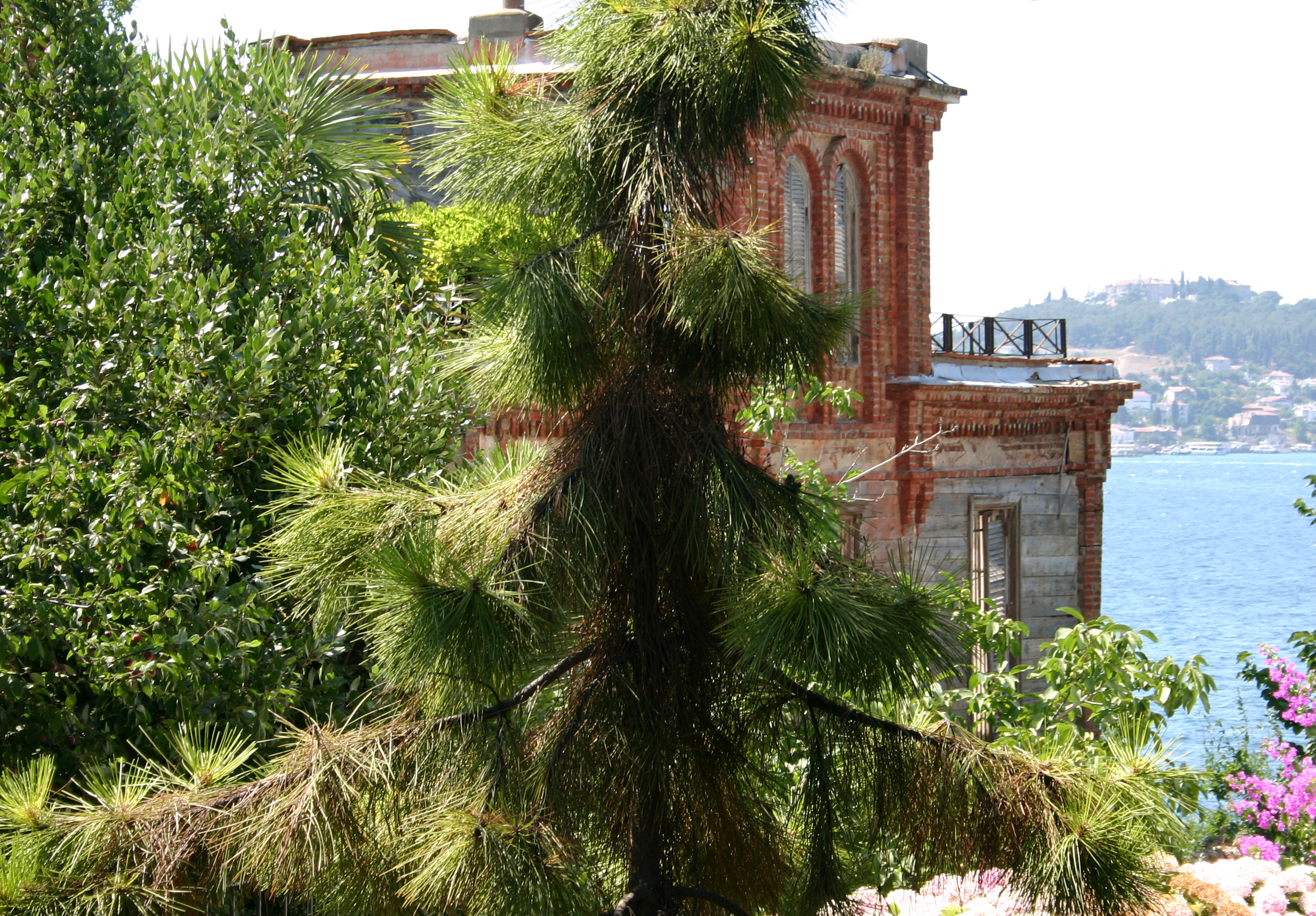 The house in Büyük Ada (Prinkipo), Istanbul, where Leon Trotsky lived in exile 1929-1933.